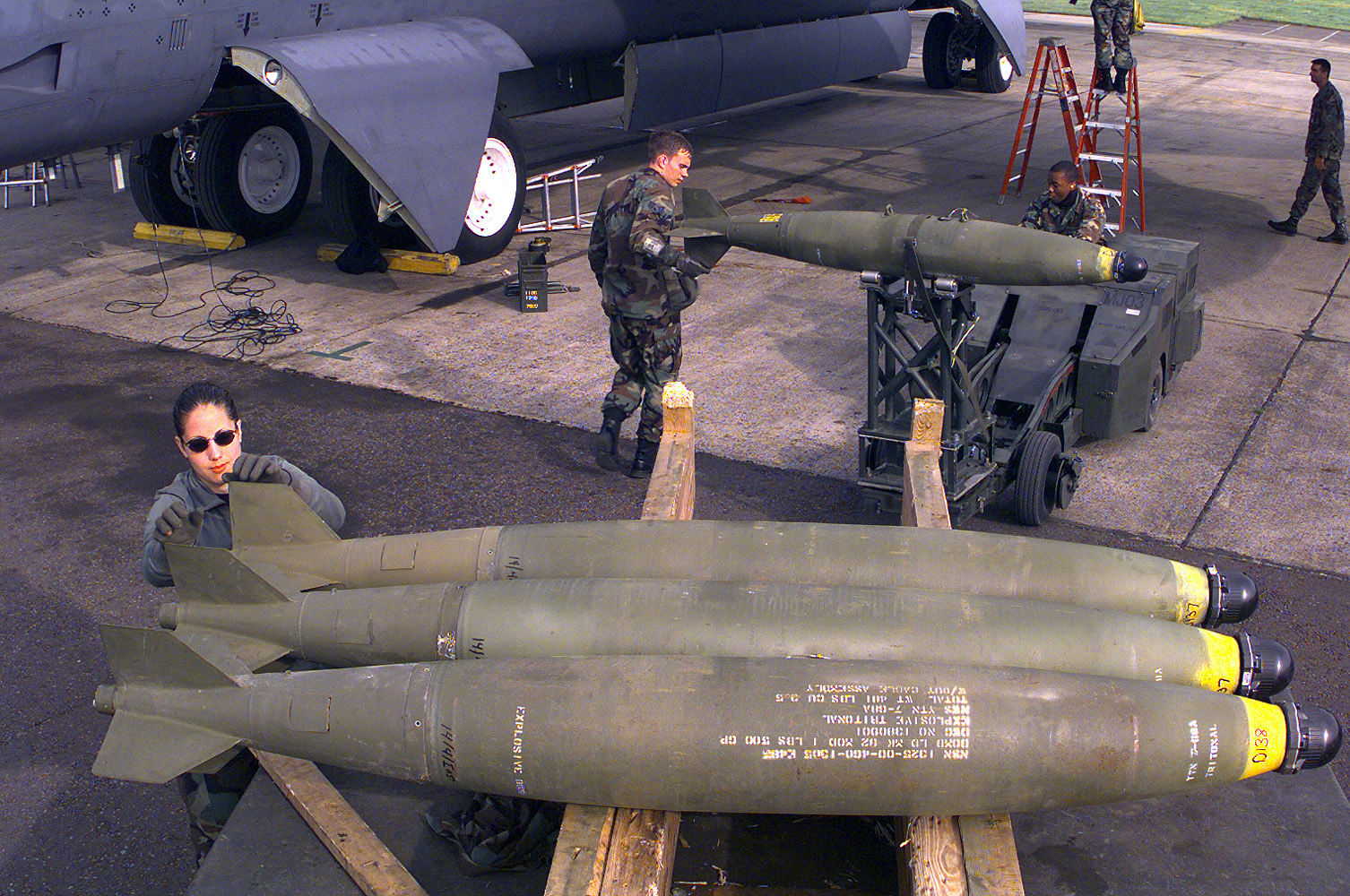 Airman 1st Class Lillian Smith (left) rolls a Mk-82 bomb to the end of the bomb trailer as the munitions crew loads a B-52H Stratofortress at RAF Fairford, United Kingdom, on May 4, 1999, for a NATO Operation Allied Force mission. Operation Allied Force is the air operation against targets in the Federal Republic of Yugoslavia. The Stratofortress and its crew are deployed from the 20th Bomb Squadron, Barksdale Air Force Base, La.